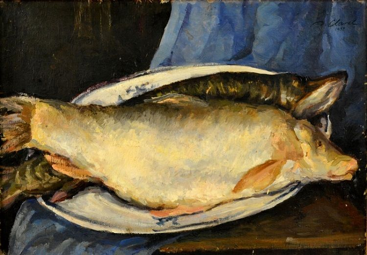 Pictură, ulei pe pânză